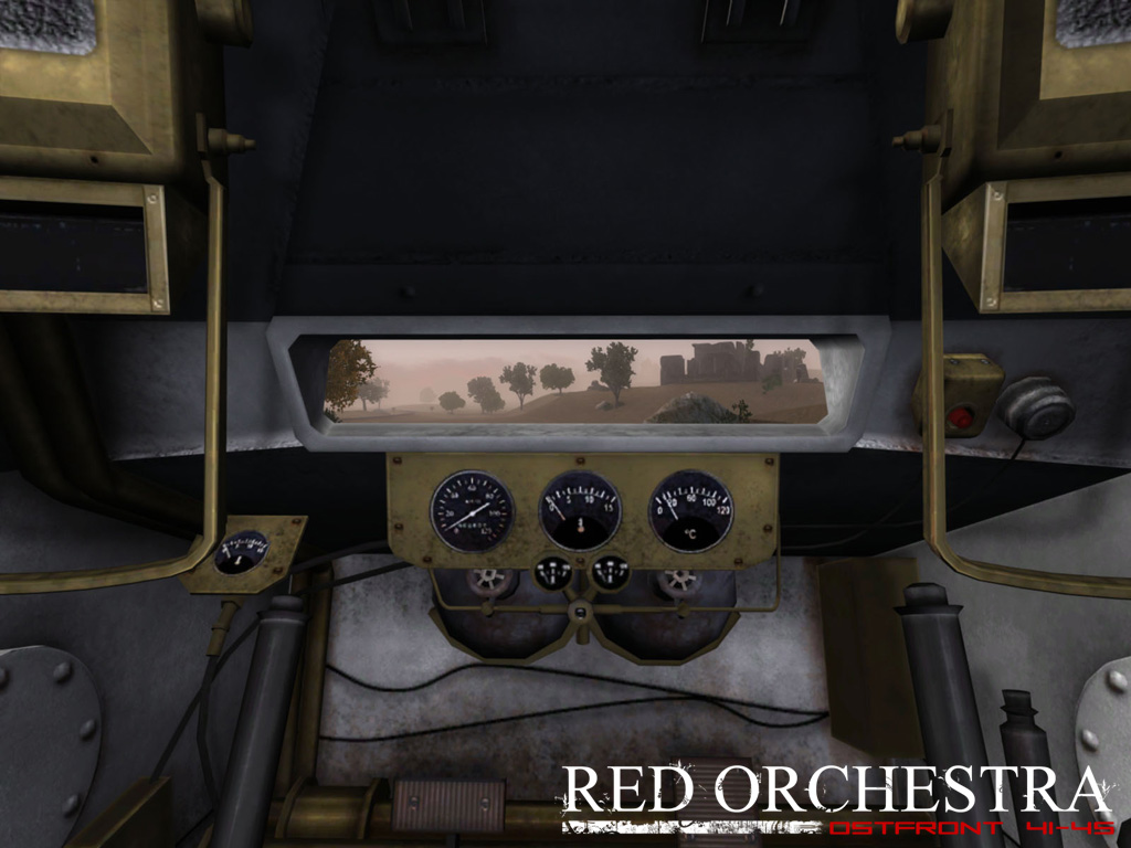 Red Orchestra IS-2 Tank from driver perspective